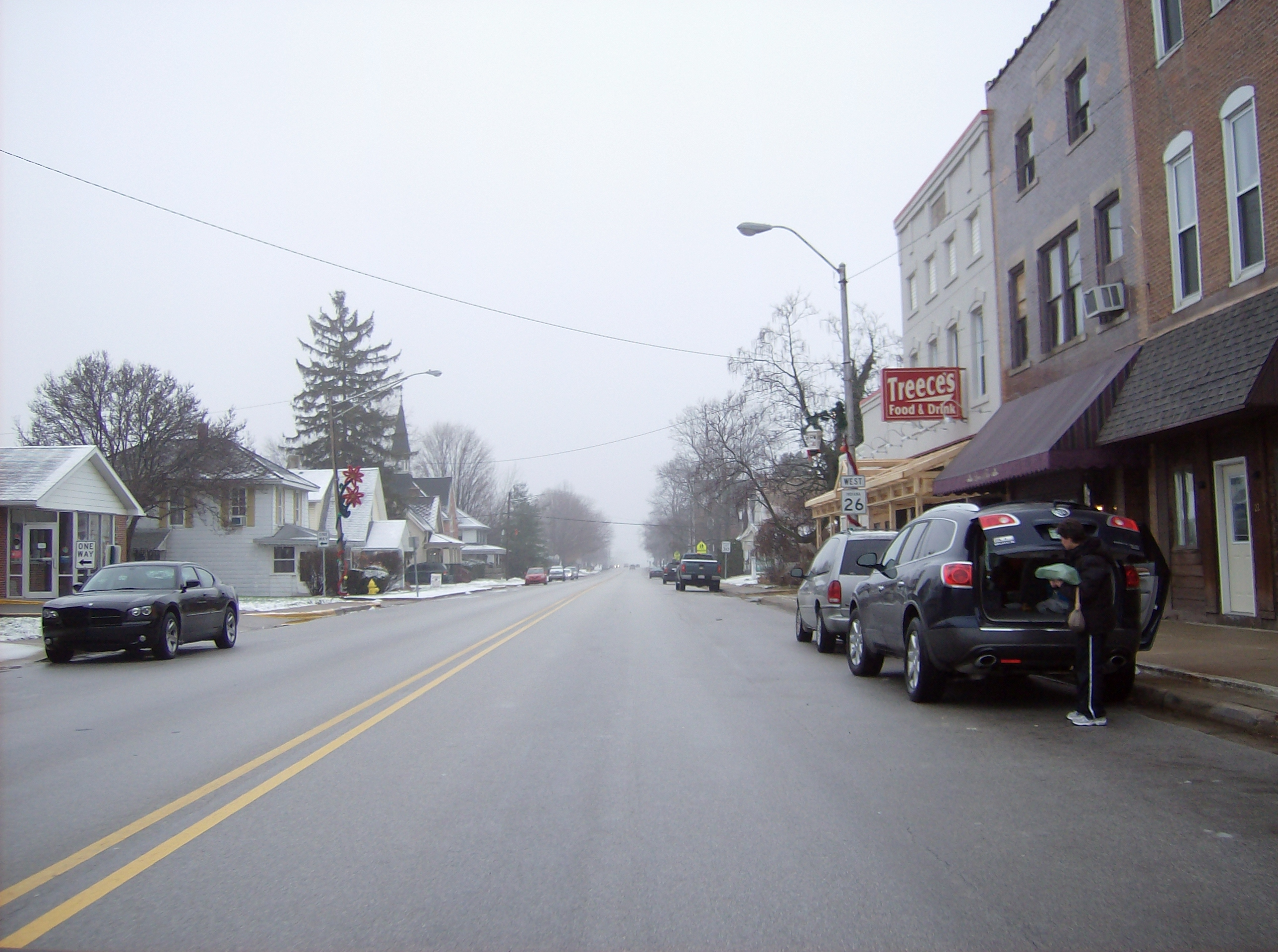 Along West Main Street (State Road 26) in downtown Rossville, a town in northwestern Clinton County, Indiana, United States.